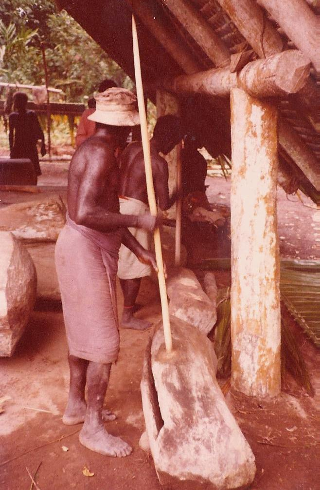 Men of a Buin village drumming in their club-house. Other information Demonstrating that while modern, multicultural bonding and social activity arrived, traditional modes remained.